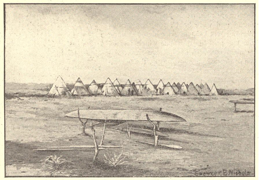 An inupiaq camp at Hotham inlet on Kotzebue sound. This was a trading camp and the conical tents were arranged in a single line parallel to the beach, with kayaks and umiaks lined up nearer the beach ready to launch.